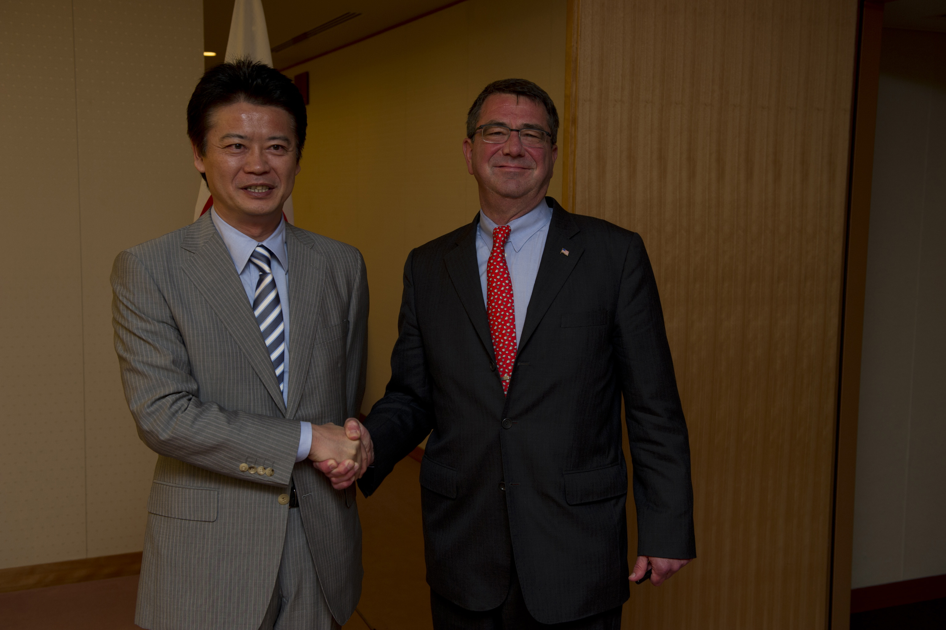 Deputy Secretary of Defense Ashton B. Carter and Japanese Foreign Minister Koichiro Gemba pose for photographers before their meeting in Tokyo, Japan, on July 20, 2012. Japan is the third stop for Carter in a 10-day Asia-Pacific trip.